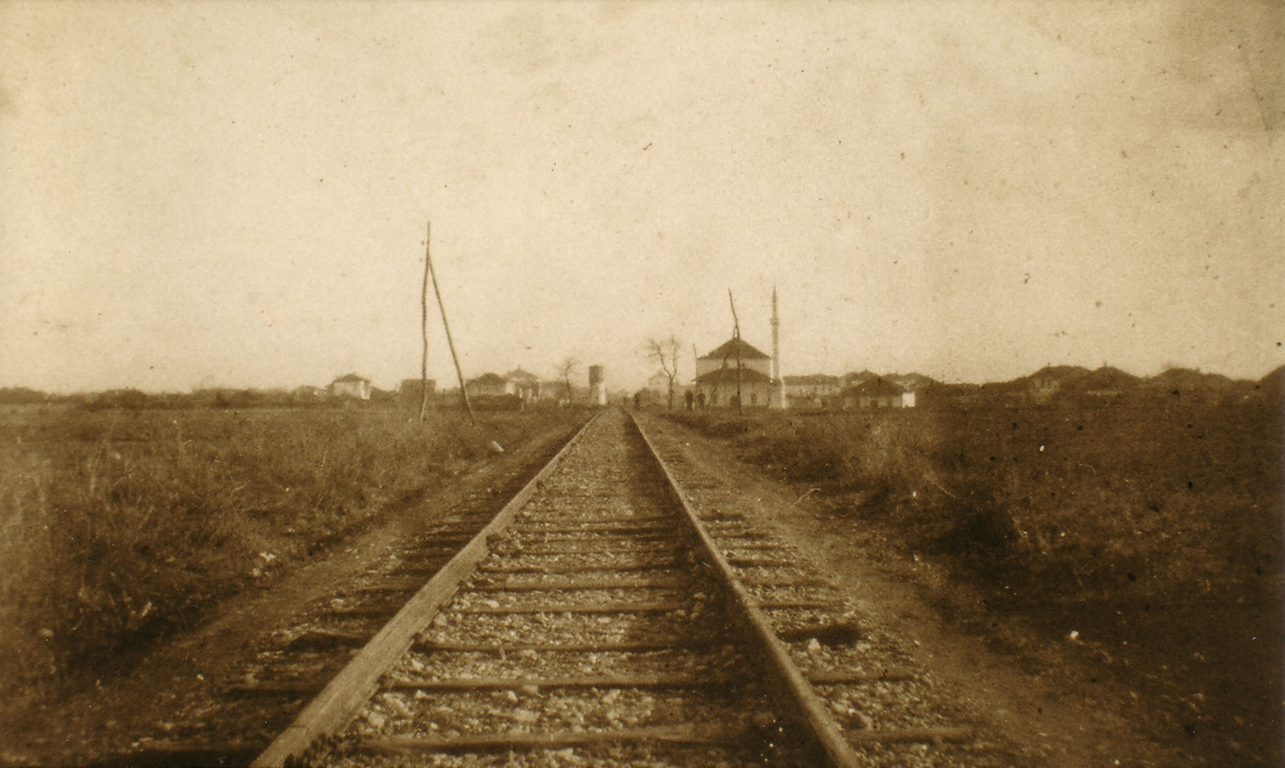 The railway line at Ferizaj/Ferizović (latter Uroševac) in Kosovo, Ottoman Empire, 1903.